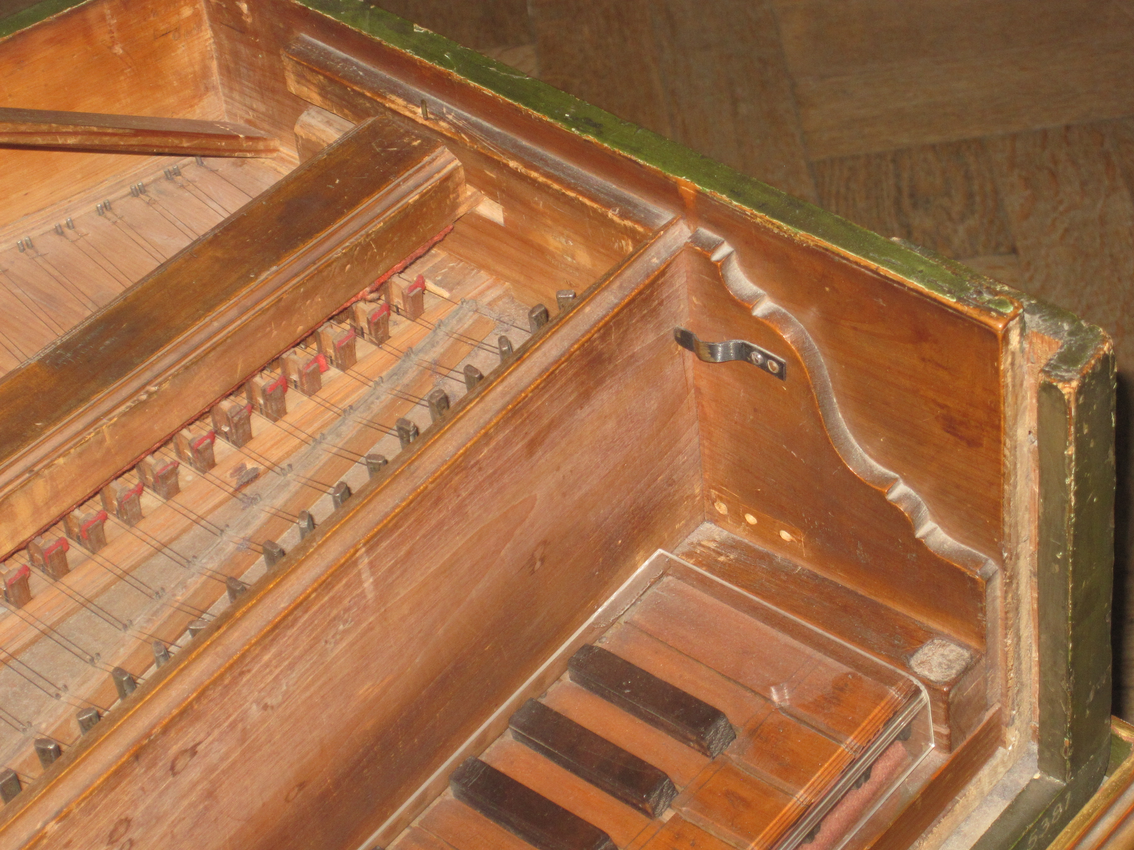 Detail of a false inner-outer harpsichord , from the collection of the Deutsches Museum in Munich.